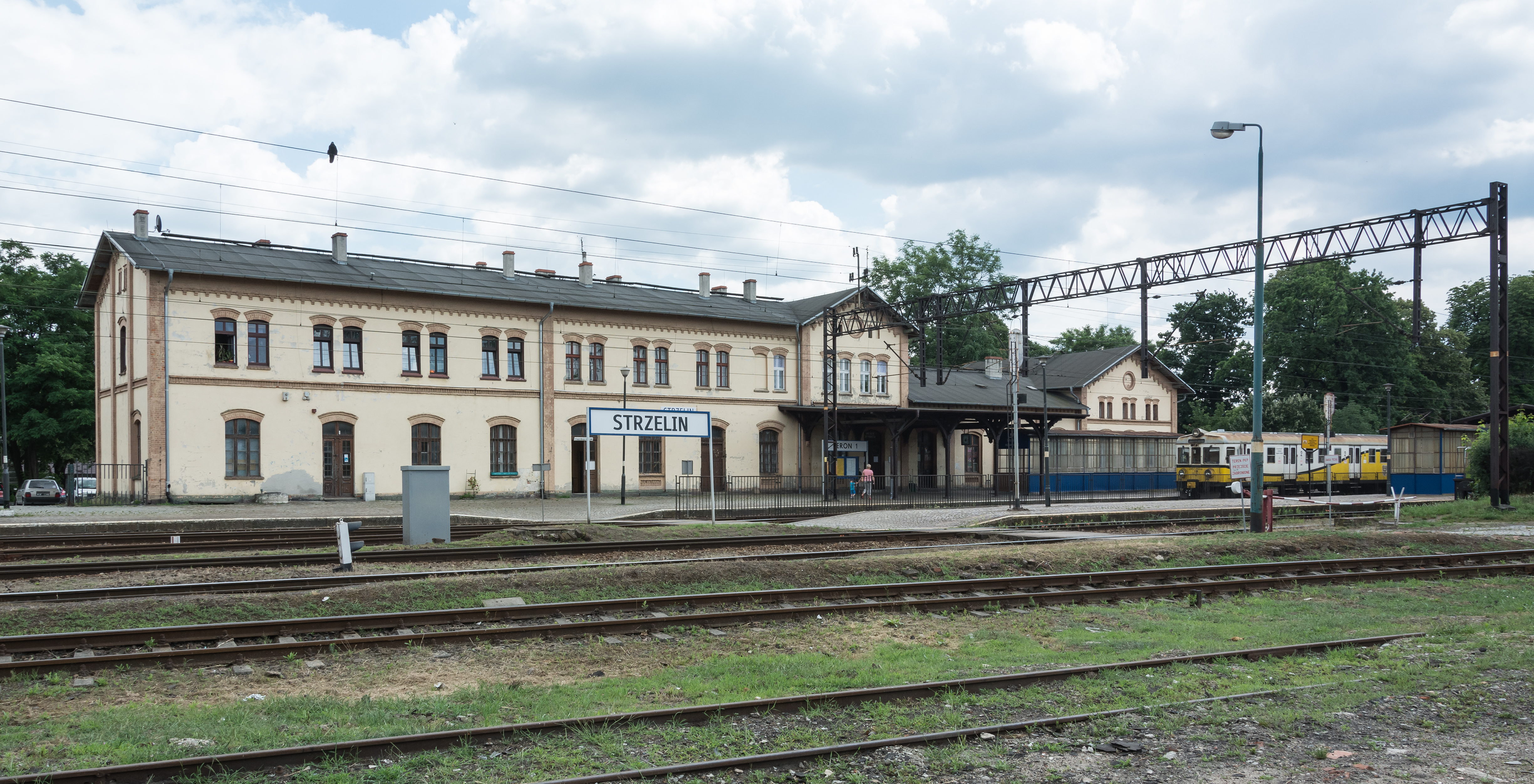 Train station in Strzelin